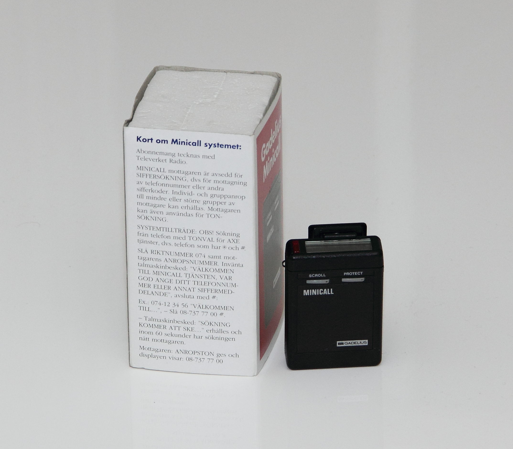 A Gadelius Minicall together with it's original package. On the package it a short description of the Swedish pager system.